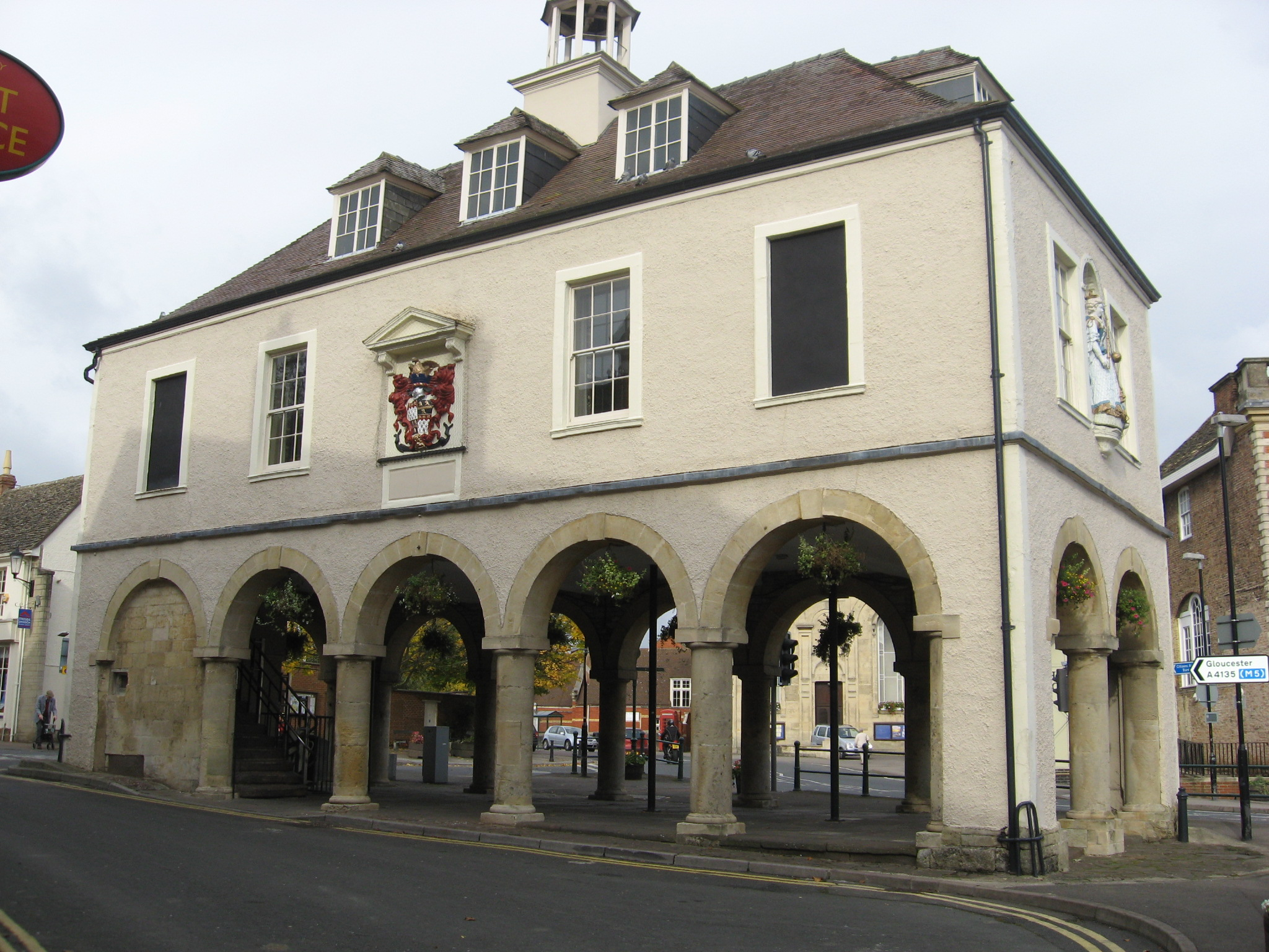 Market house, Dursley, Gloucestershire